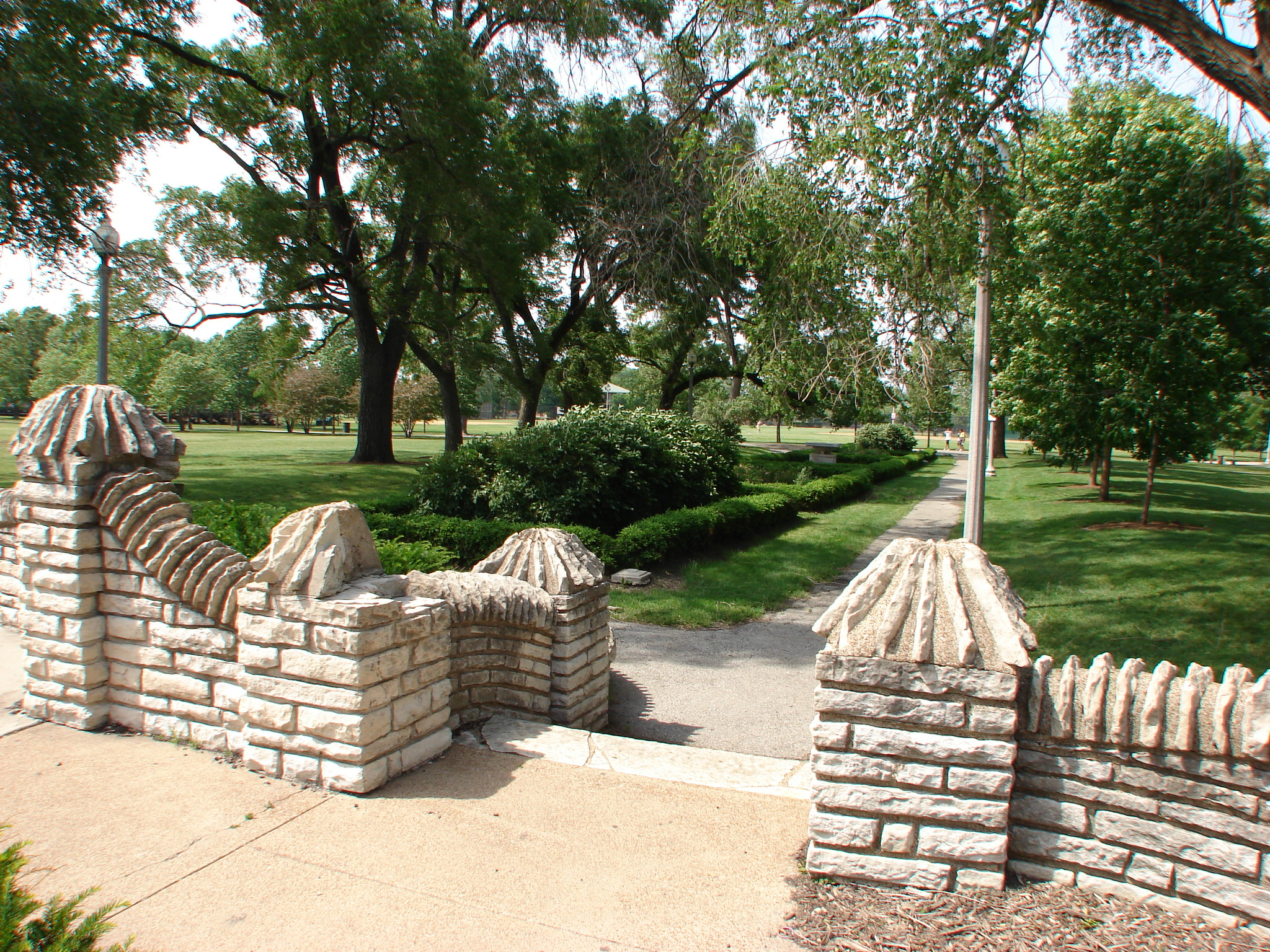 Some of the flagstone decor that Chicago's Portage Park is notorious for.